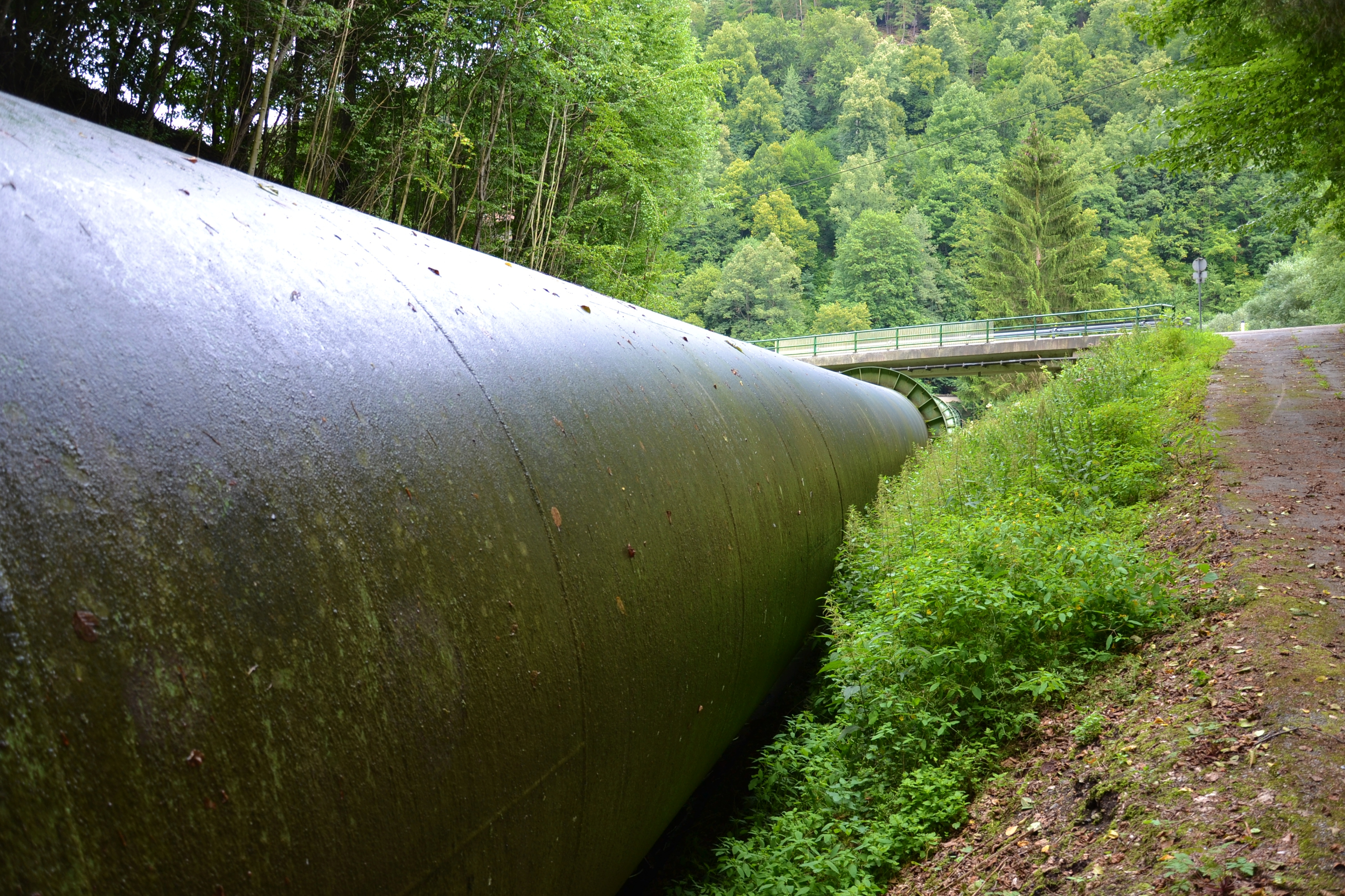 Pipe of the hydro power plant Dobra